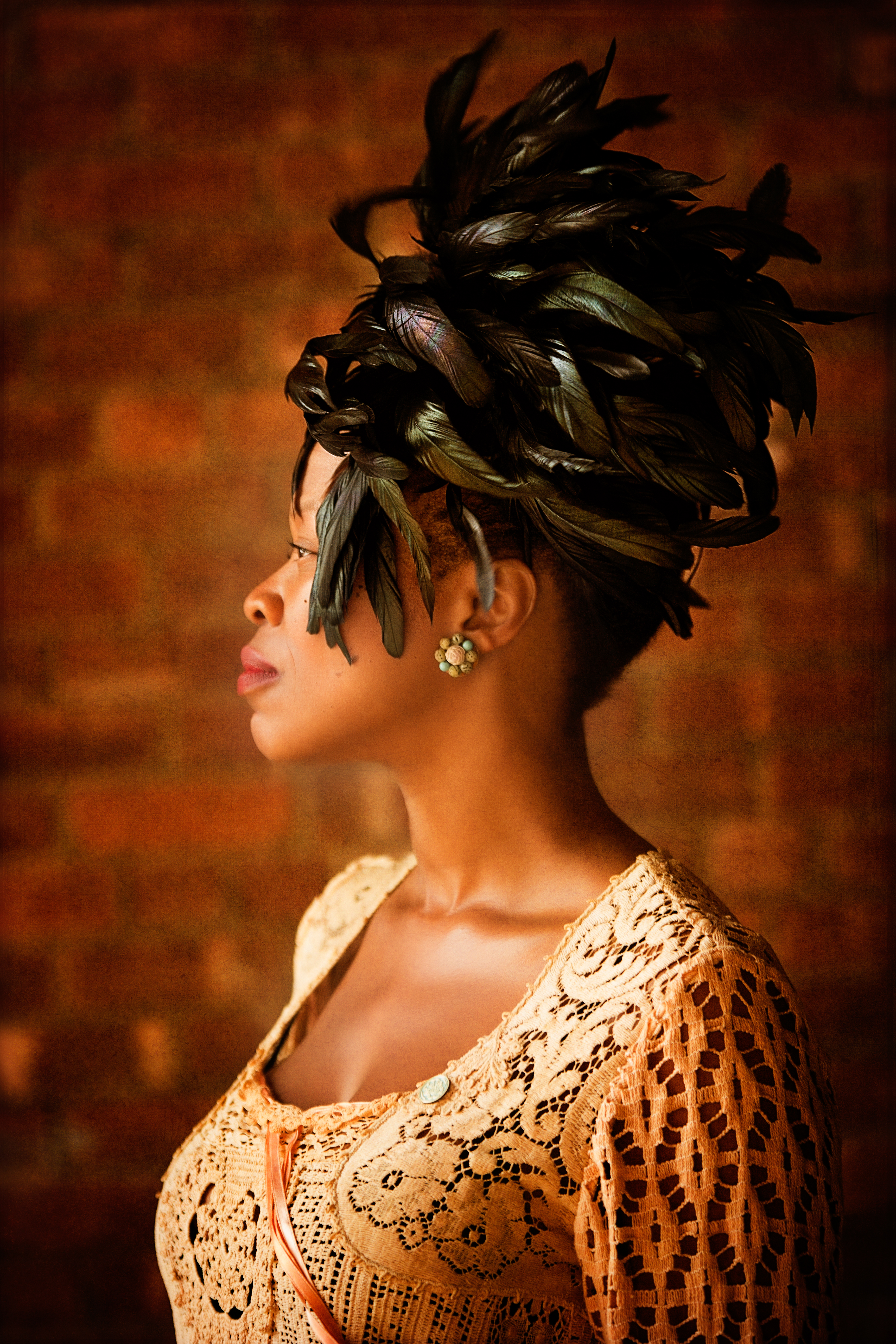 A portrait of Queen Esther at The Jazz Age Lawn Party on Governor's Island in New York City -- August, 2014. Photo by Steven Rosen.